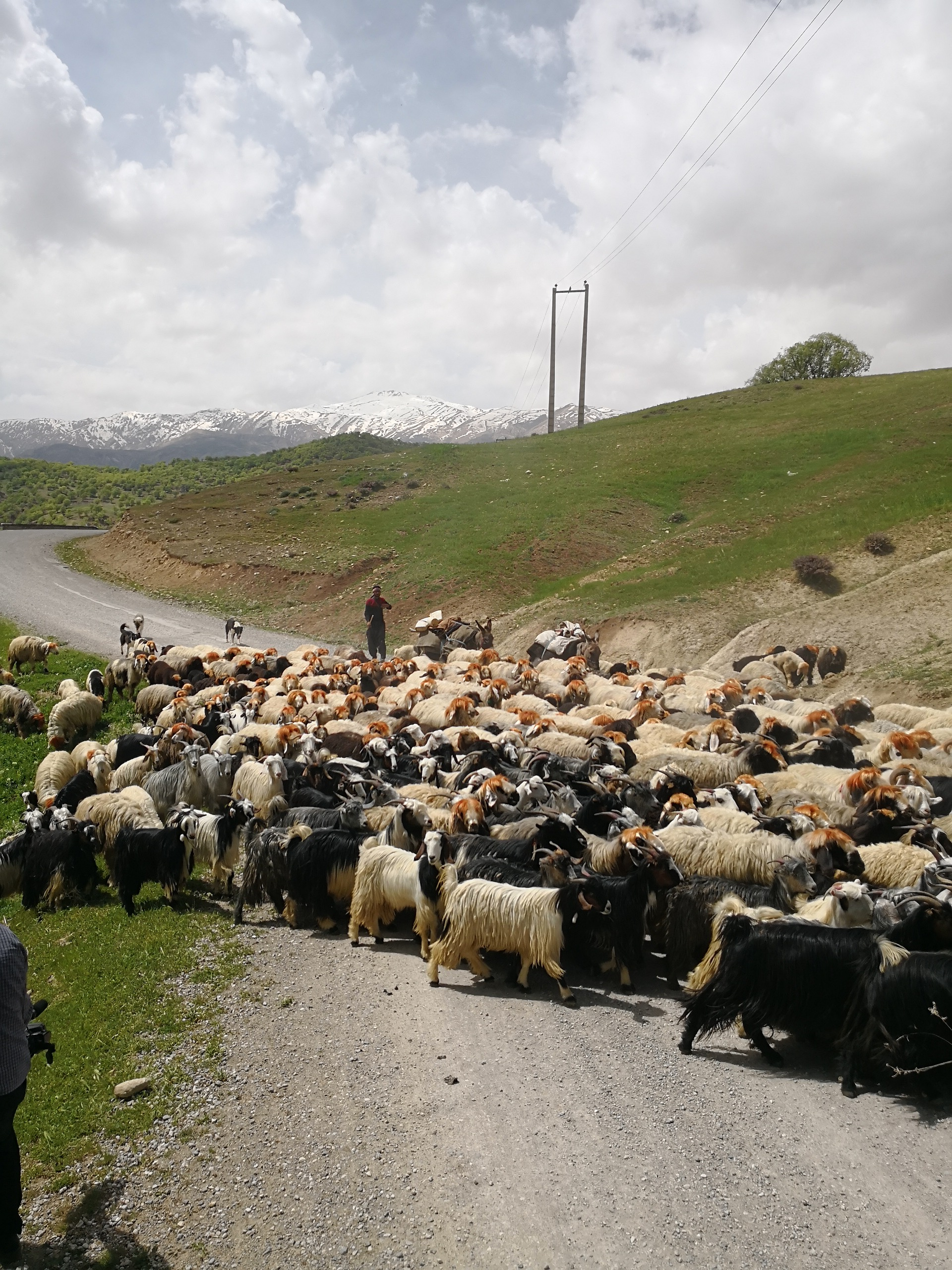 Bakhtiari nomads transhuming goats and sheeps in Bazoft, Iran